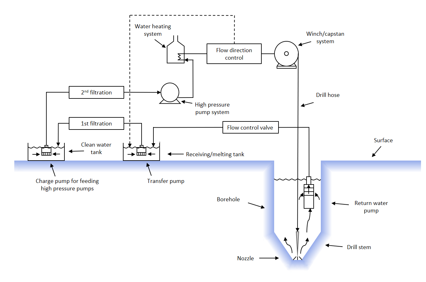 Schematic of a hot water drill. Redrawn from Bentley et al., "Ice Drilling and Coring", in Bar-Cohen & Zacny (2009), Drilling in Extreme Environments, Weinheim, Germany: Wiley-VCH, p. 263. ISBN 978-3-527-40852-8